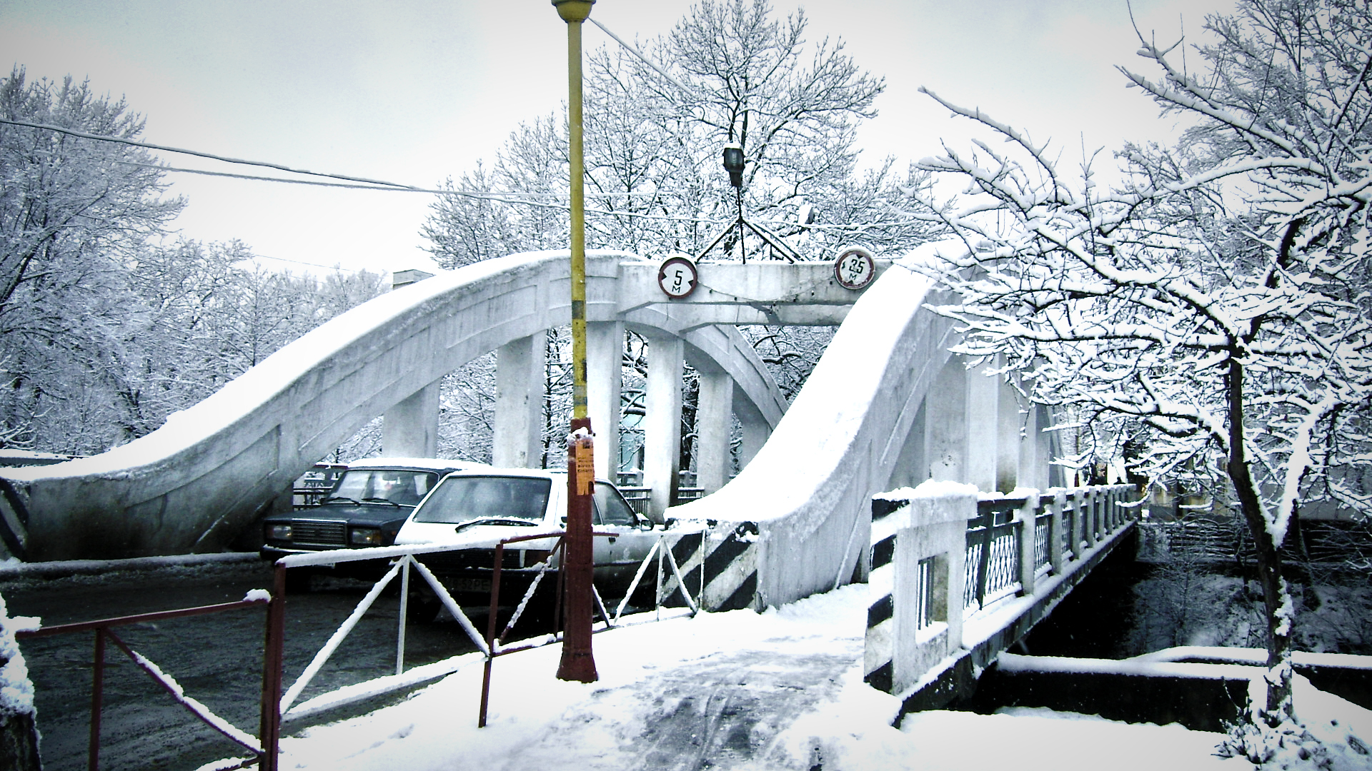 Bridge from Irshava